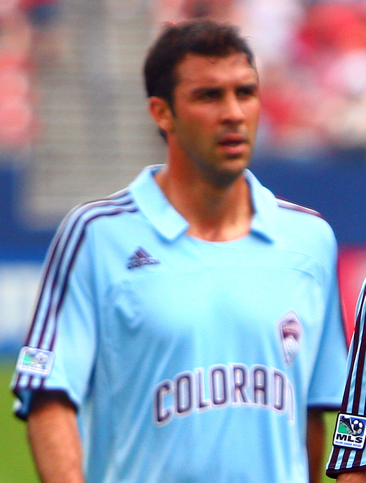 Jovan Kirovski and Kyle Beckerman of Colorado